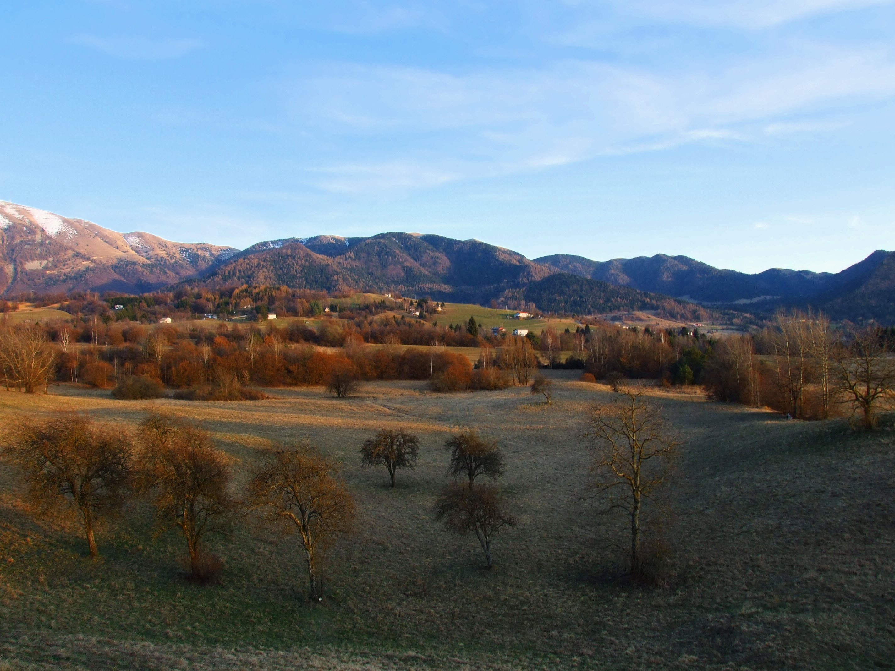 The Valpiana in the place of Nice